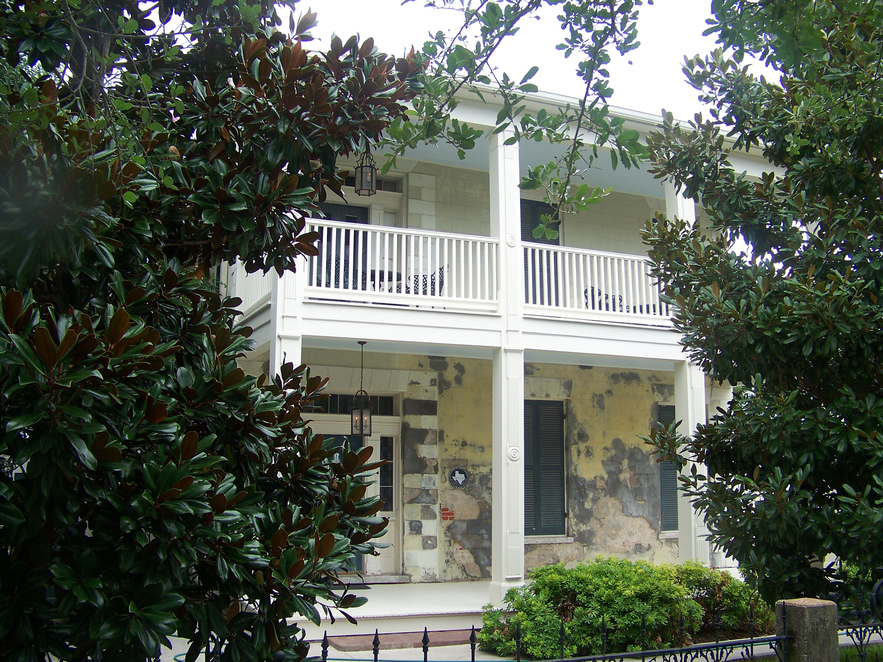 The south facade of the George Washington Grover House on August 18, 2016.